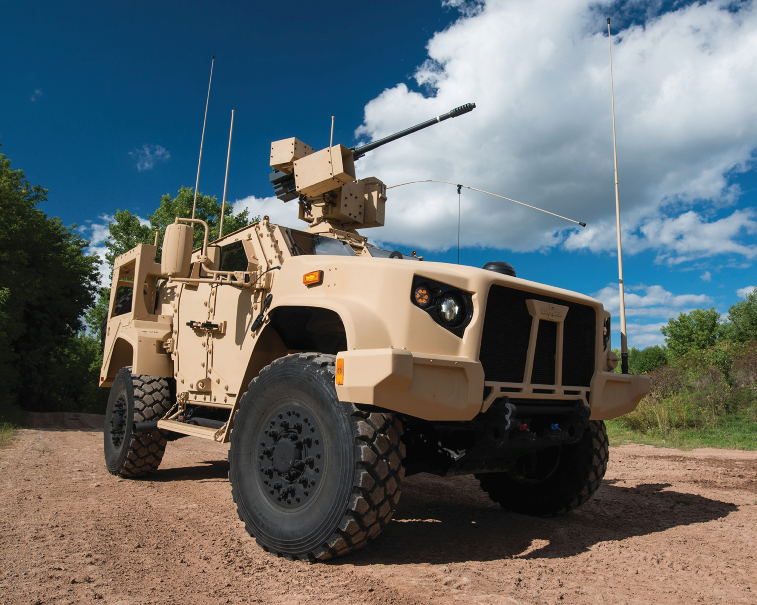 October 2016 image of Oshkosh L-ATV fitted with Orbital ATK's M230 LF 30mm lightweight automatic chain gun mounted on EOS R400S-MK2 remote weapon station